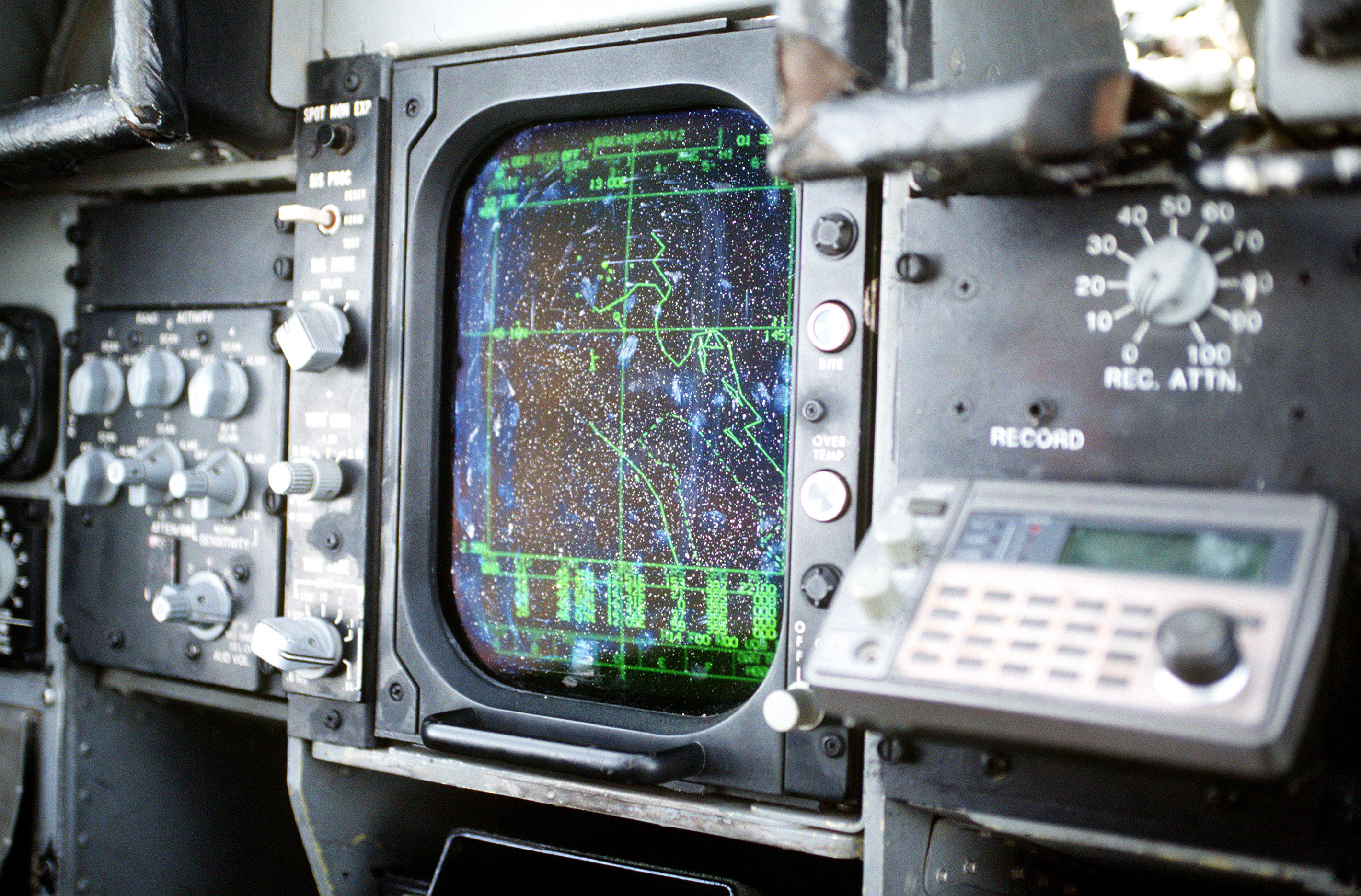 A close-up view of the Suppression of Enemy Air Defenses (SEAD) screen in a Navy EA-6B Prowler aircraft. The screen is used to locate by triangulation, in coordination with intelligence officers, where threats are coming from. The Prowler protects aircraft flying over Bosnia-Herzegovina with either their jamming capability or HARM (High-Speed Anti-Radiation missiles).